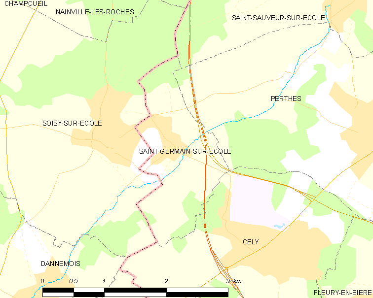 Map of French municipality Saint-Germain-sur-École